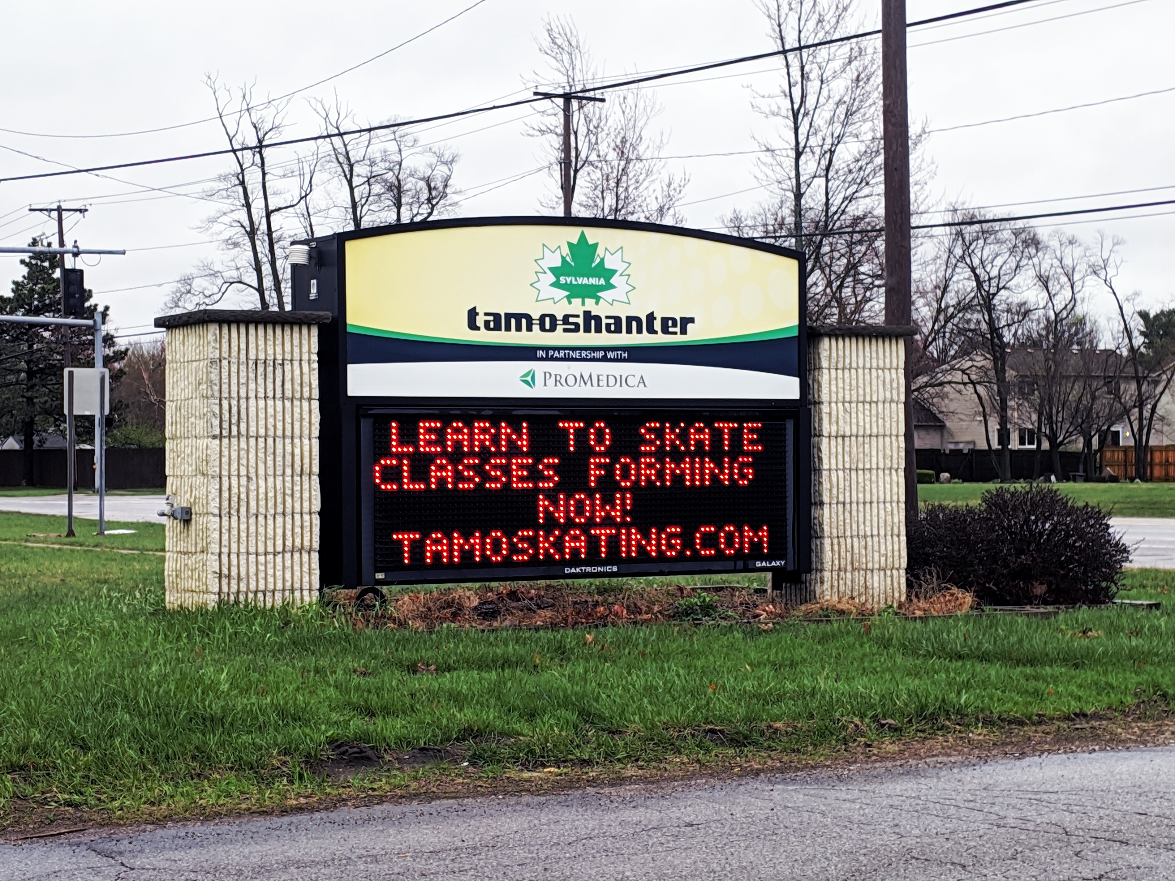 A photograph of a road sign at the Sylvania Tam-O-Shanter sports facility in Sylvania, Ohio